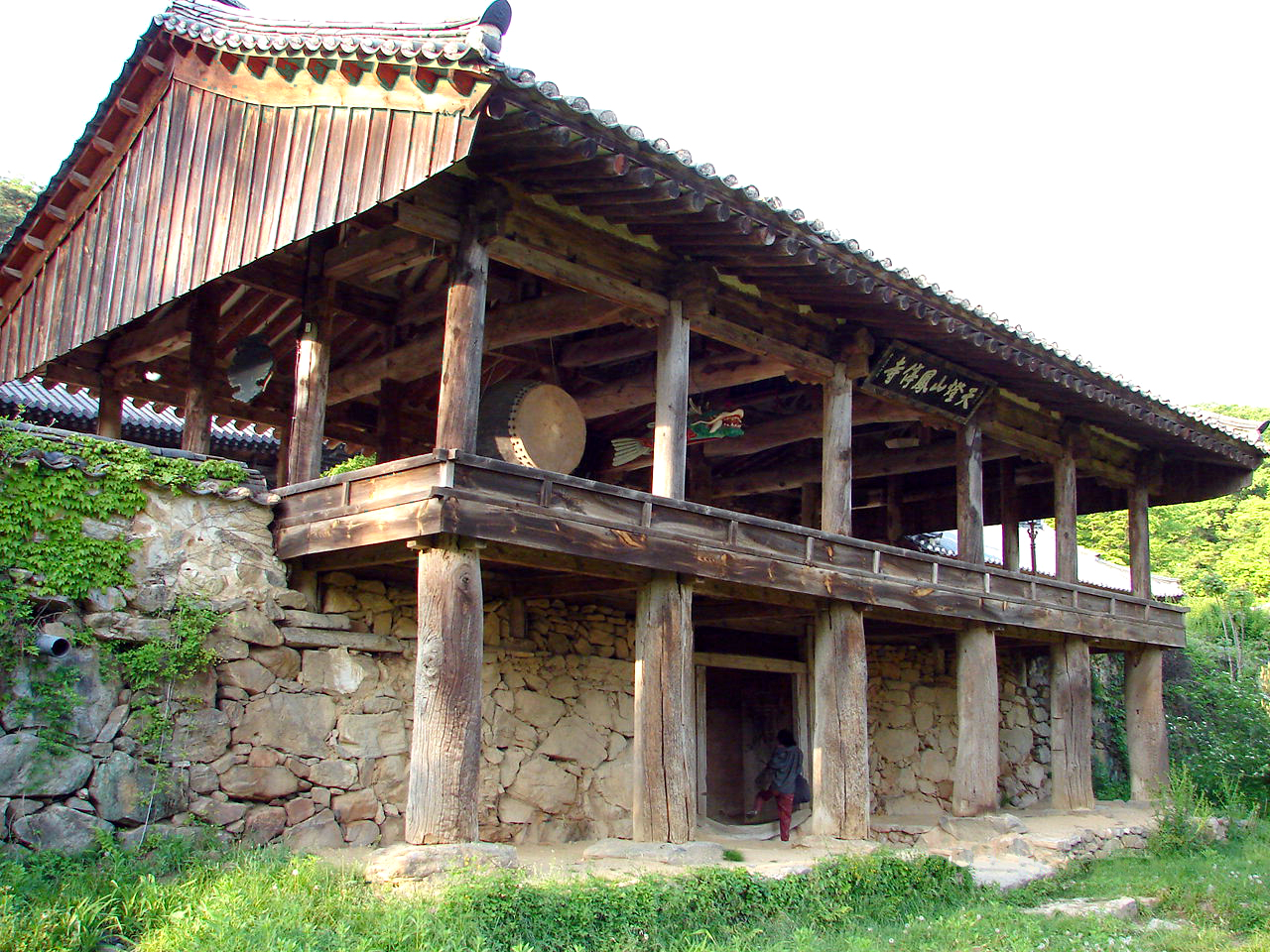 Bongjeongsa Manseru Bongjeongsa is located at the southern foot of Mt. Cheondungsan, 16 kilometers northwest of Andong city. It was built by the Buddhist Priest Uisangchosa in 672 A.D. As the oldest wooden structure in Korea, it has historic and academic significance. Many important cultural properties, such as Gukrakjeon Hall, Daeungjeon (main prayer hall), Hwaomgangdang Hall, Gogumdang Hall and Muryanghaehoedang Hall are located in the temple compound. In particular, Gukrakjeon Hall is noteworthy, because it clearly shows unique Shilla architectural design unlike most other buildings which adopted Chinese designs.